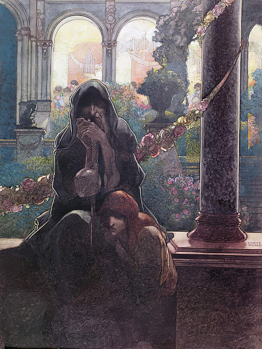 The rich making merry in their beautiful houses while the beggars were sitting at the gates